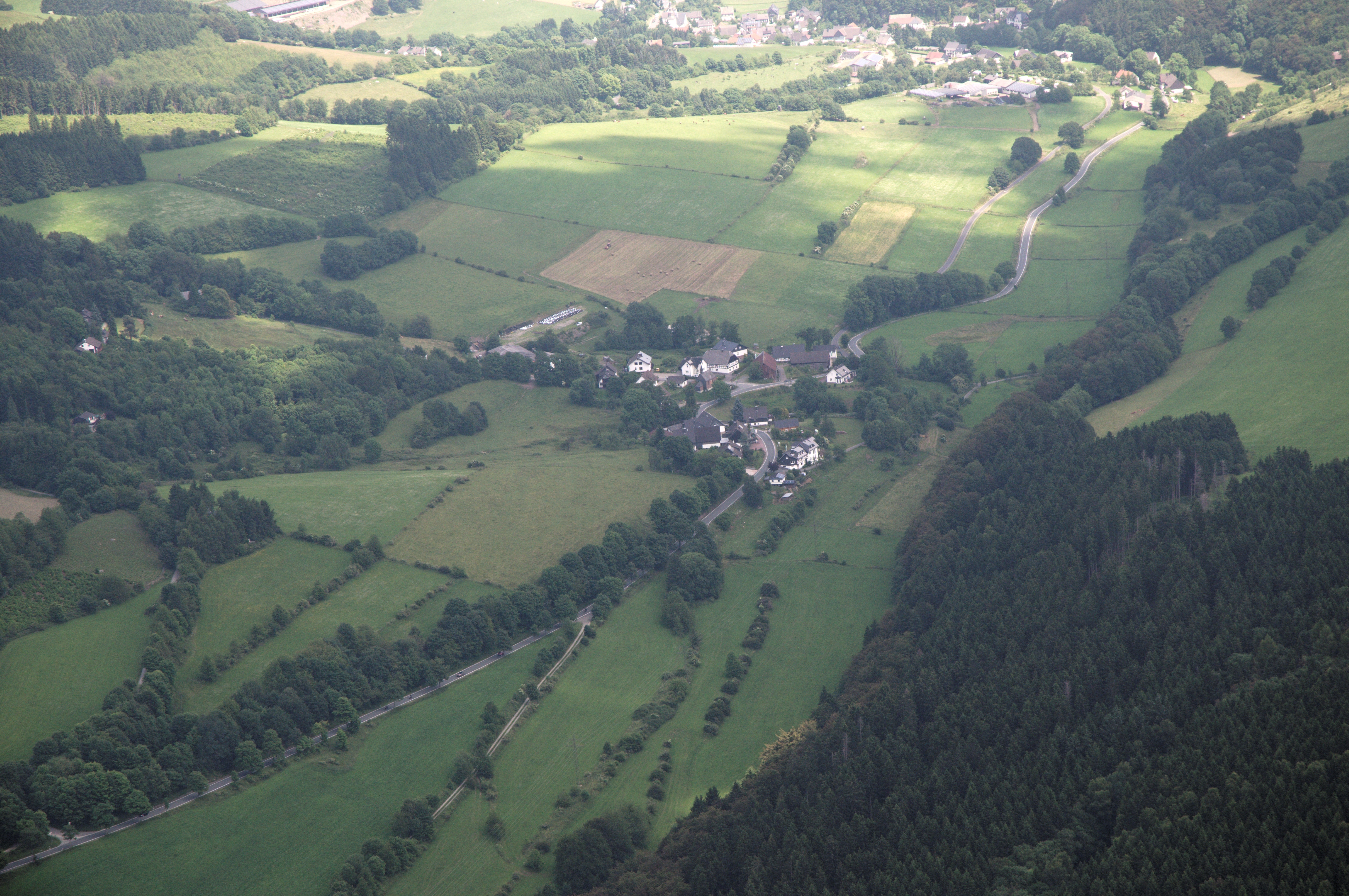 Fotoflug Sauerland-Ost, Medebach-Wissinghausen im Dittelsbachtal, oben Deifeld The making of this document was supported by the Community-Budget of Wikimedia Germany.